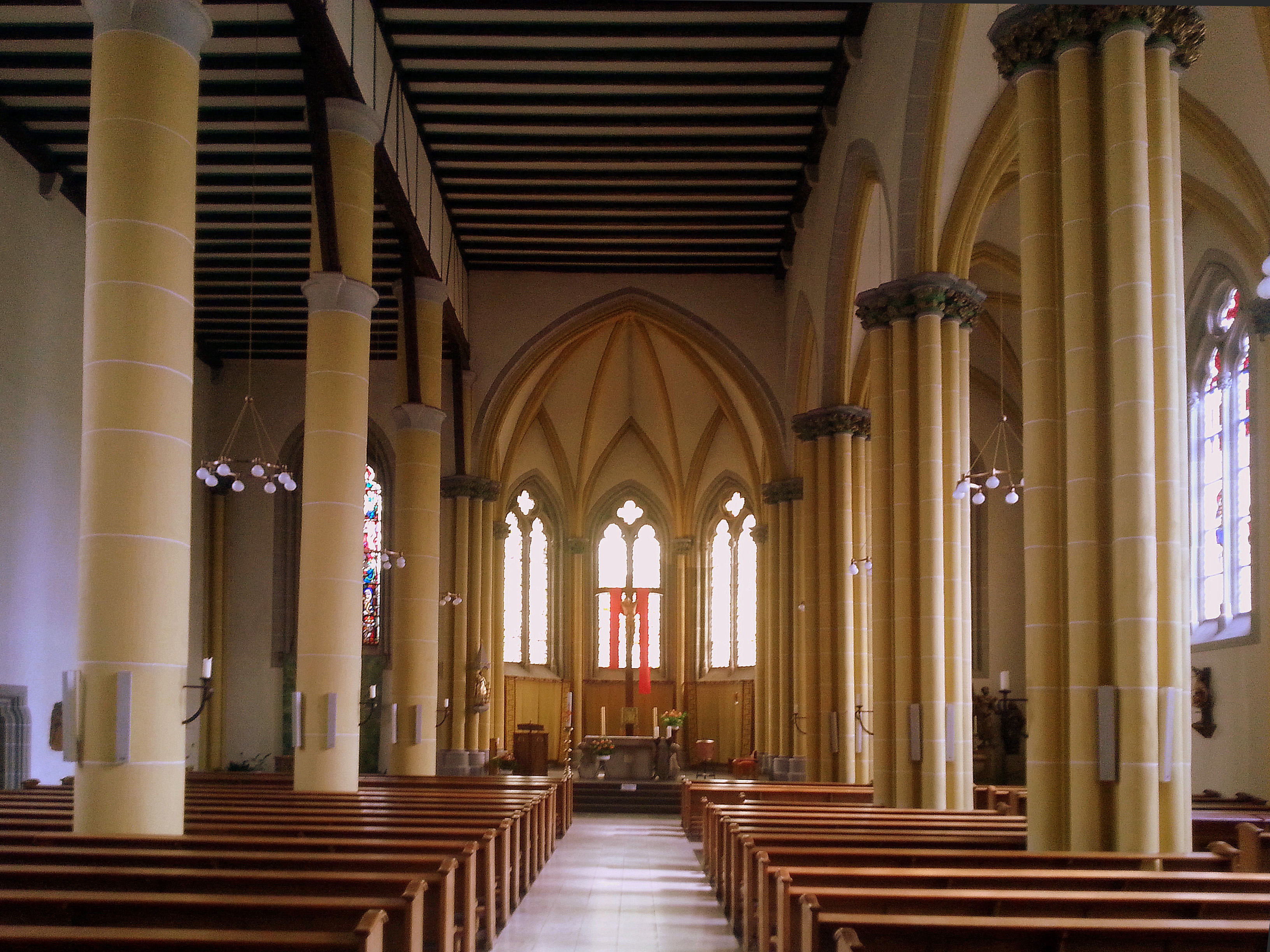 Interior of the roman catholic church in Saarburg, Rhineland-Palatinate, Germany